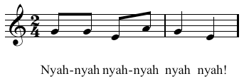 six musical notes in musical staff notation -- the six notes of the "nyah nyah nyah nyah nyah nyah" children's taunting song